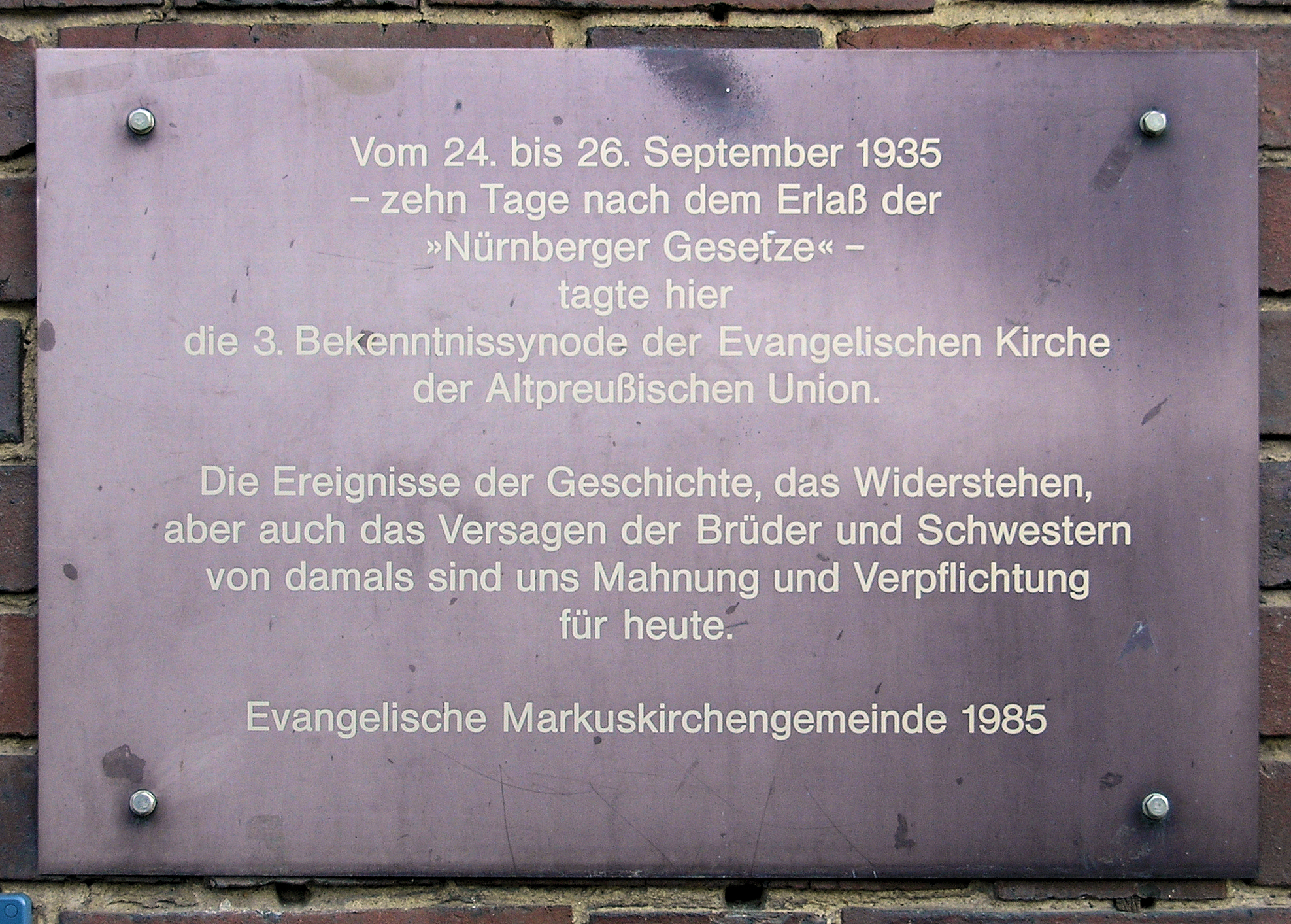 Memorial plaque, 3rd old-Prussian Synod of Confession, Albrechtstraße 81, Berlin-Steglitz, Germany Koordinate:52°26′58″N 13°20′18″E / 52.44944°N 13.33833°E